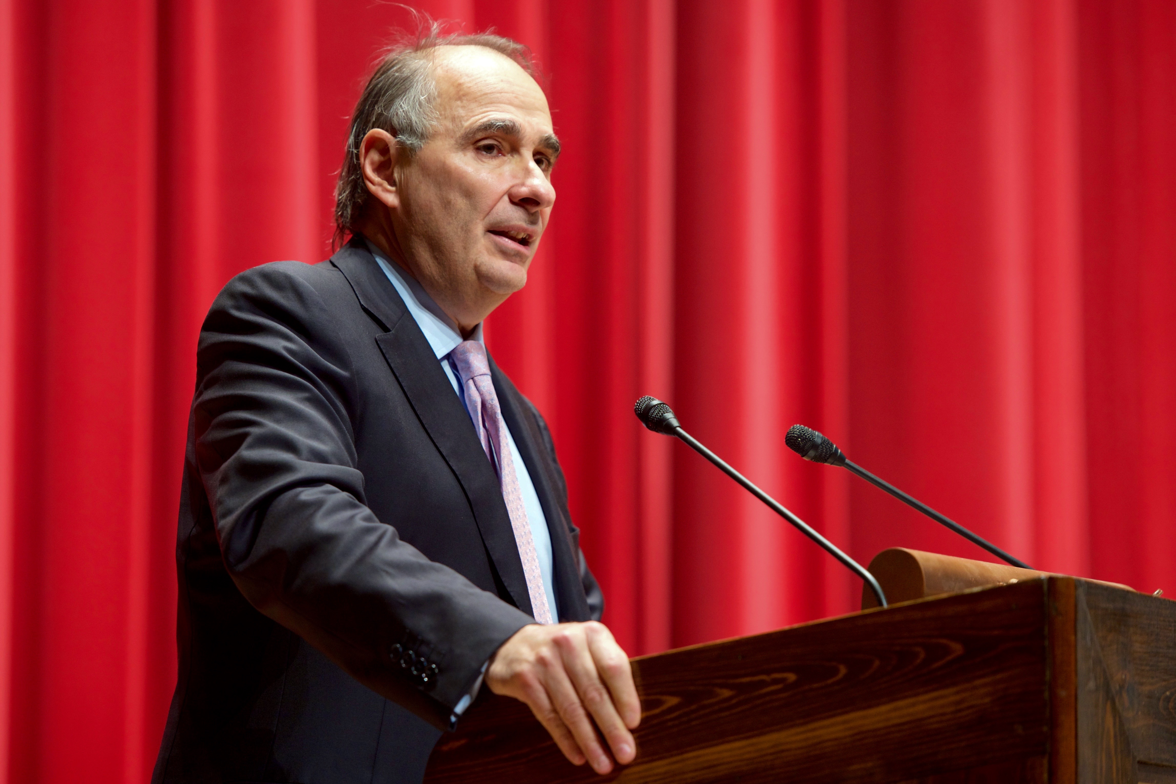 University of Chicago Institute of Politics Director David Axelrod introduces U.S. Secretary of State John Kerry and Aspen Institute President Walter Isaacson before they discuss global affairs and answer students' questions at the University of Chicago's Institute of Politics in Chicago, Illinois, during a visit to the city on October 26, 2016, which was also to include a speech before the Council on Global Affairs. [State Department photo/ Public Domain]